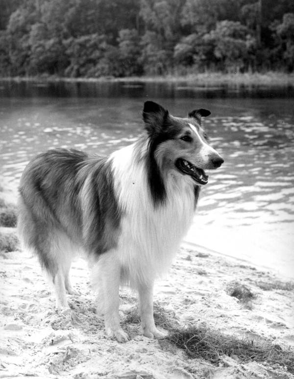 Lassie filming movie on location in Florida